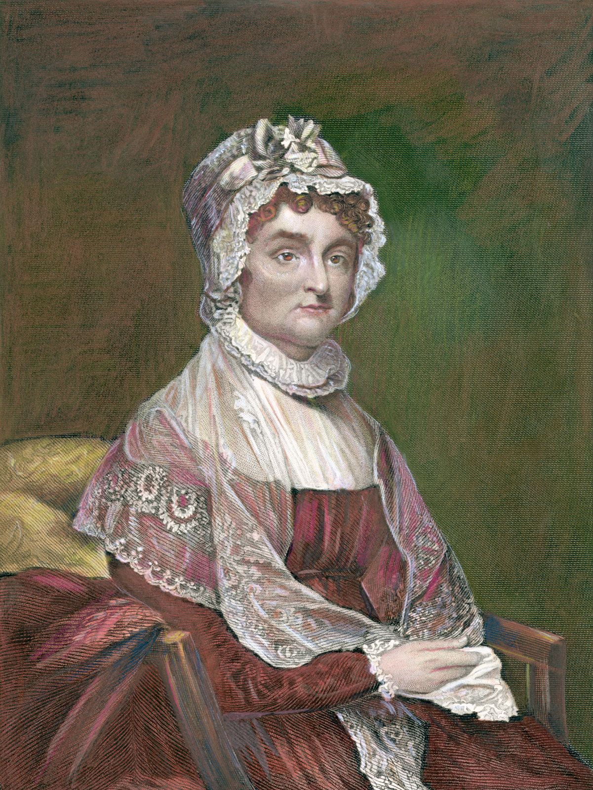 Colorized version of File:Abigail Adams (Stuart) 2.jpg